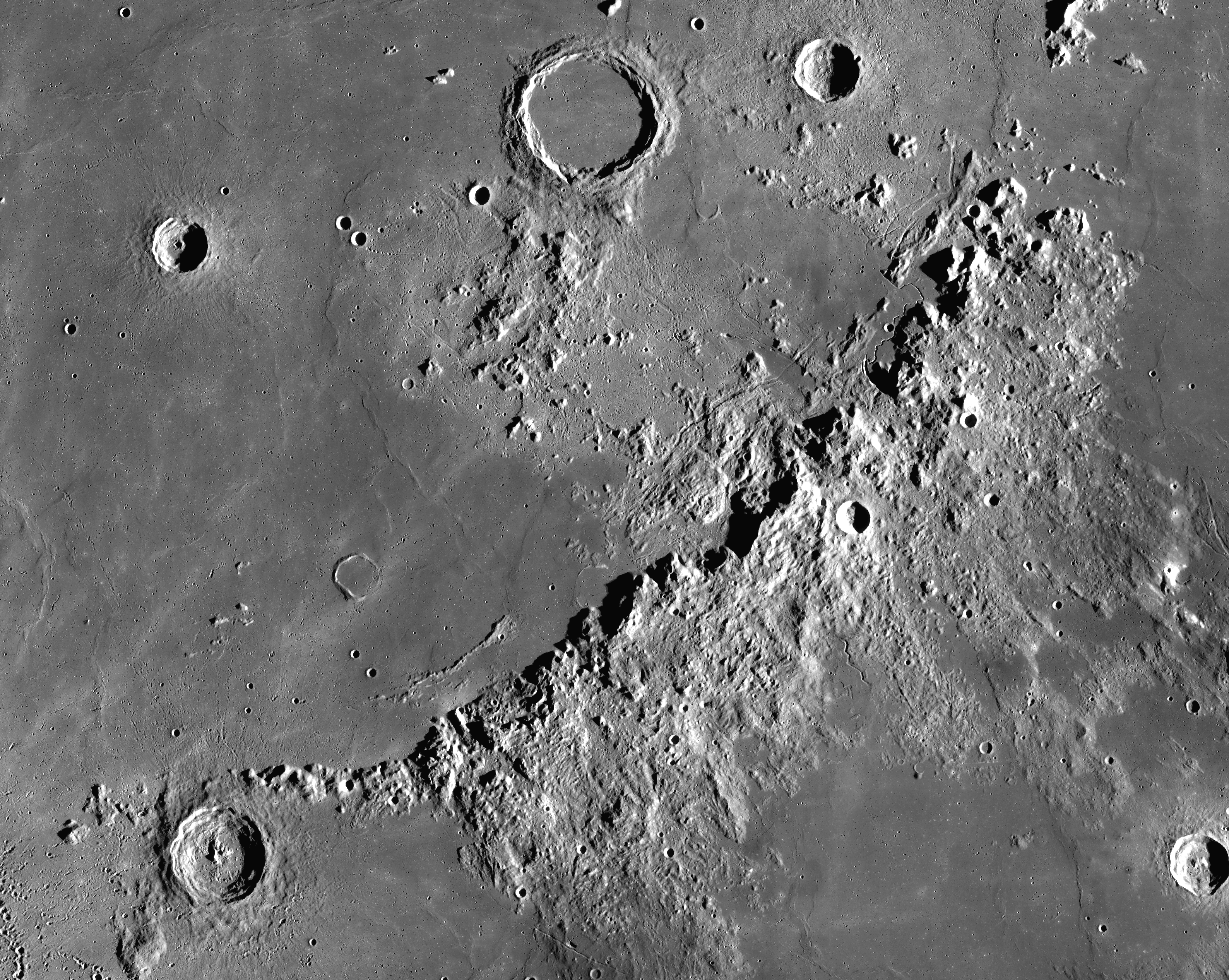 Montes Apenninus on the Moon. Mosaic of photos by Lunar Reconnaissance Orbiter, made with Wide Angle Camera. Size of the image is 750×600 km, north is up. The image has the same span and resolution as an elevation map Montes Apenninus (GLD100).jpg.